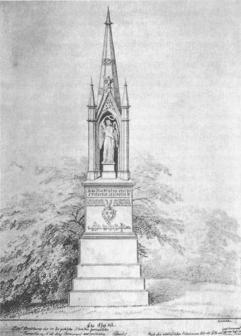 drawing by Karl Friedrich Schinkel (around 1822) showing his design for the grave of Karl Leopold von Köckeritz at Invalidenfriedhof cemetery in Berlin